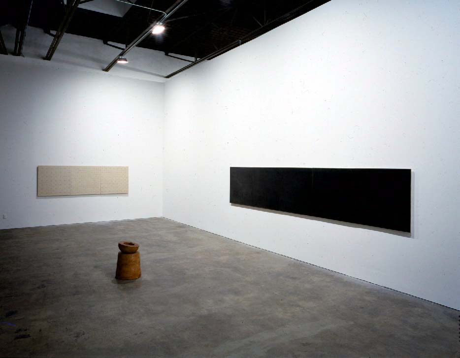 Photo taken at Site Santa Fe 1995 by Gloria Graham.